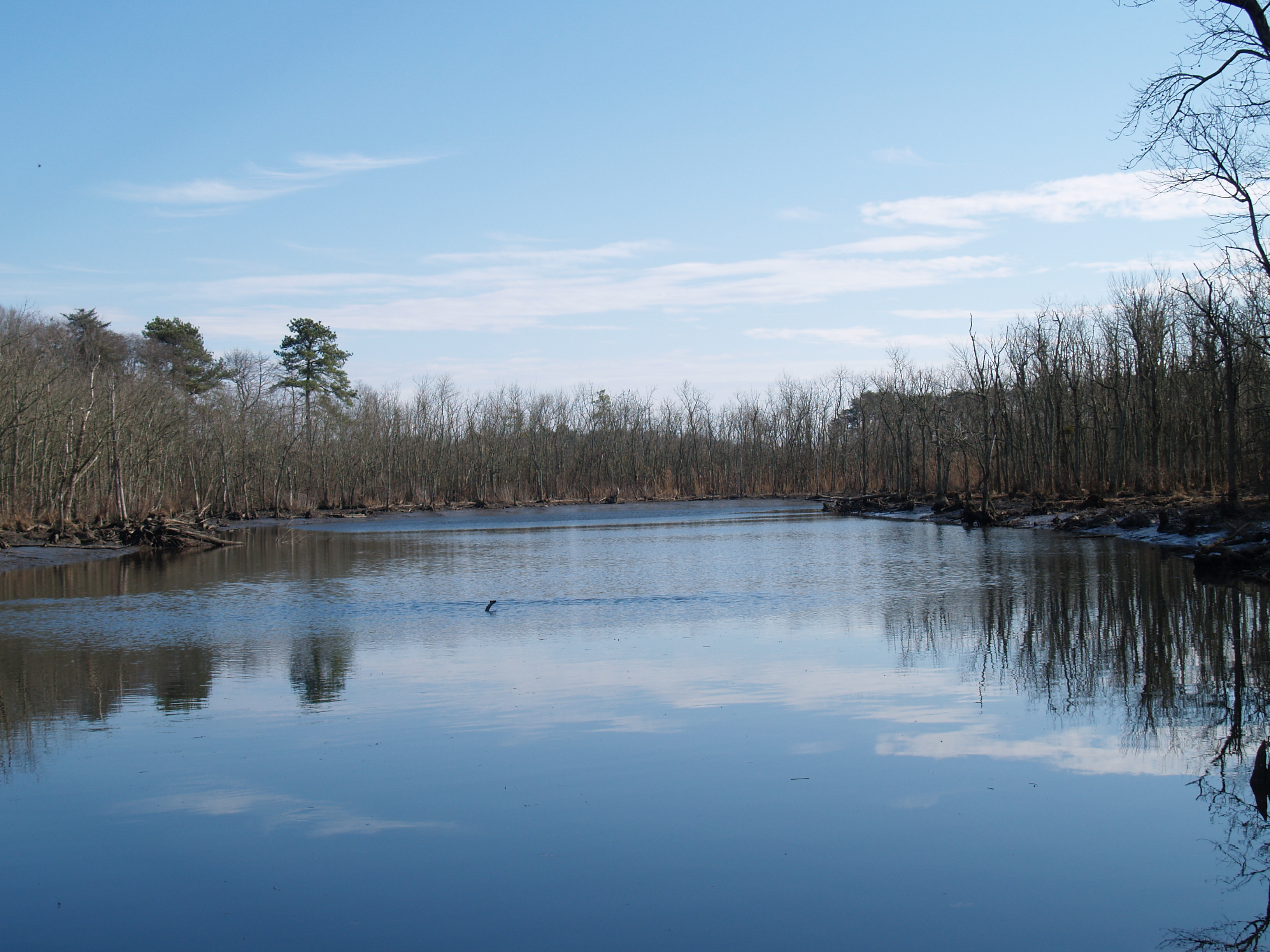 Image of Spring Creek (Murderkill River tributary) upstream of Frederica, Delaware in 2012.